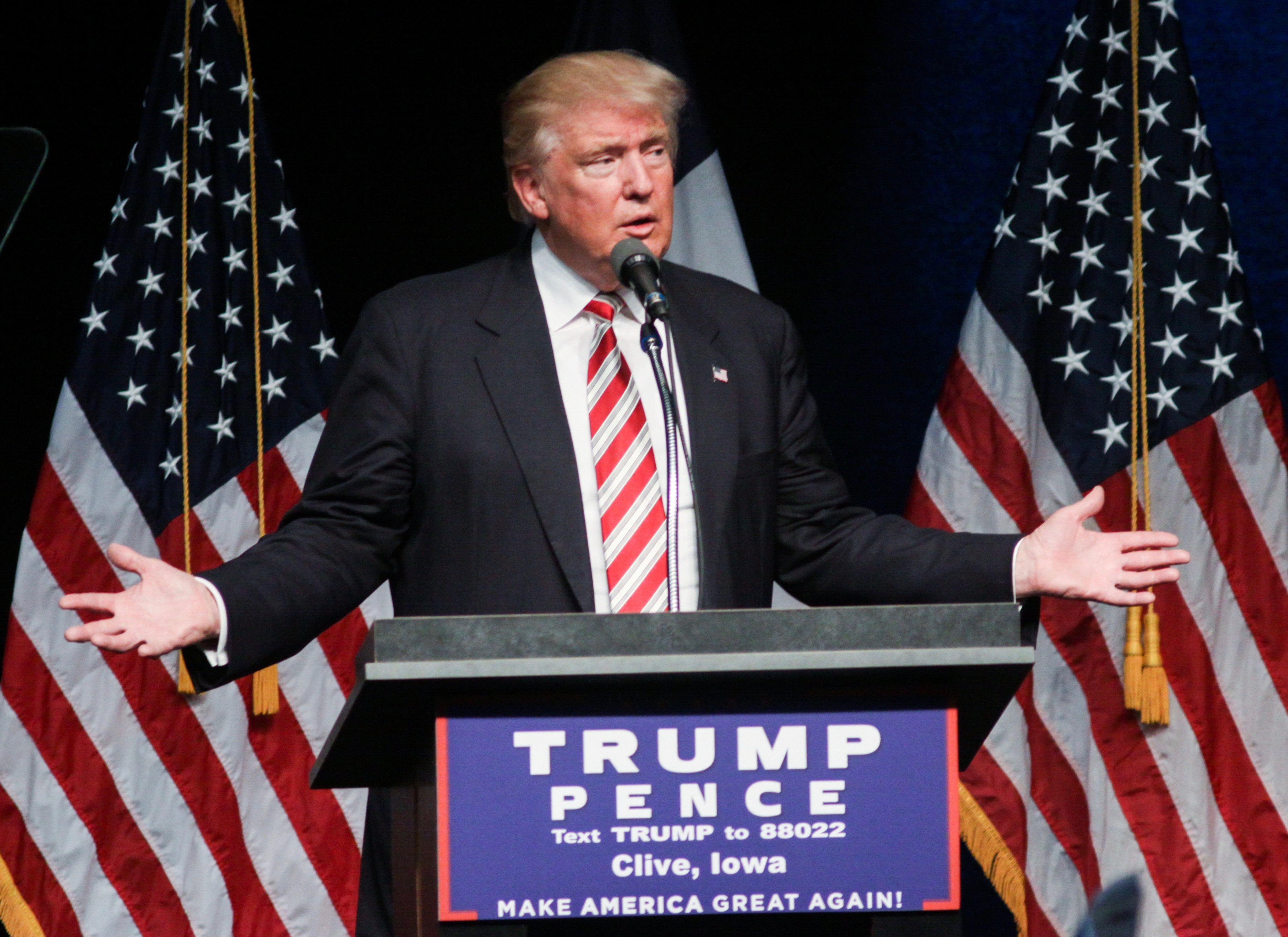 Trump Clive Iowa (9/13/16)